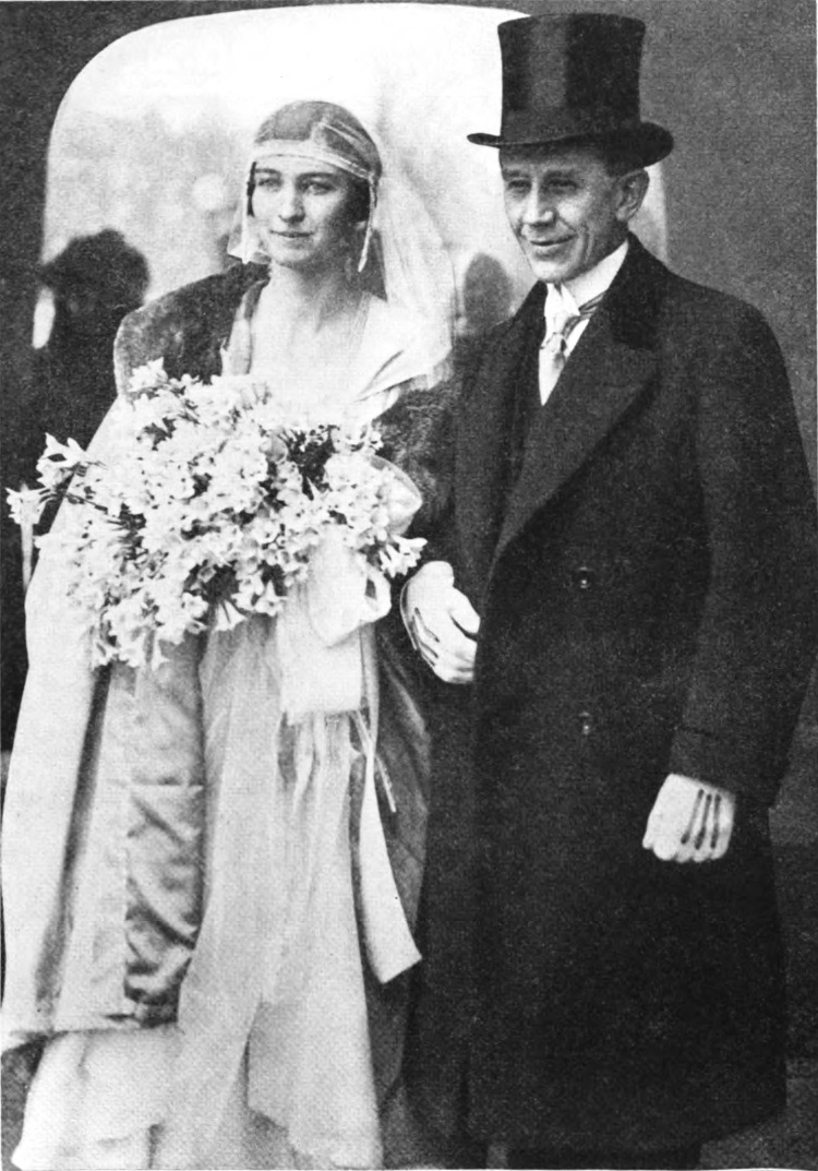 Cartoonist John T. McCutcheon marrying Evelyn Shaw, on January 20, 1917, at the Fourth Presbyterian Church, Chicago Illinois.